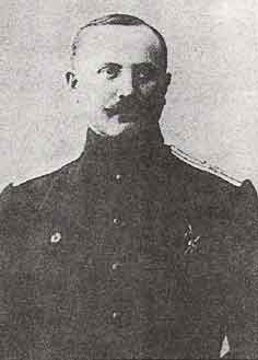 Nukh Bek Shamkhal Tarkovsky (1878-1951)